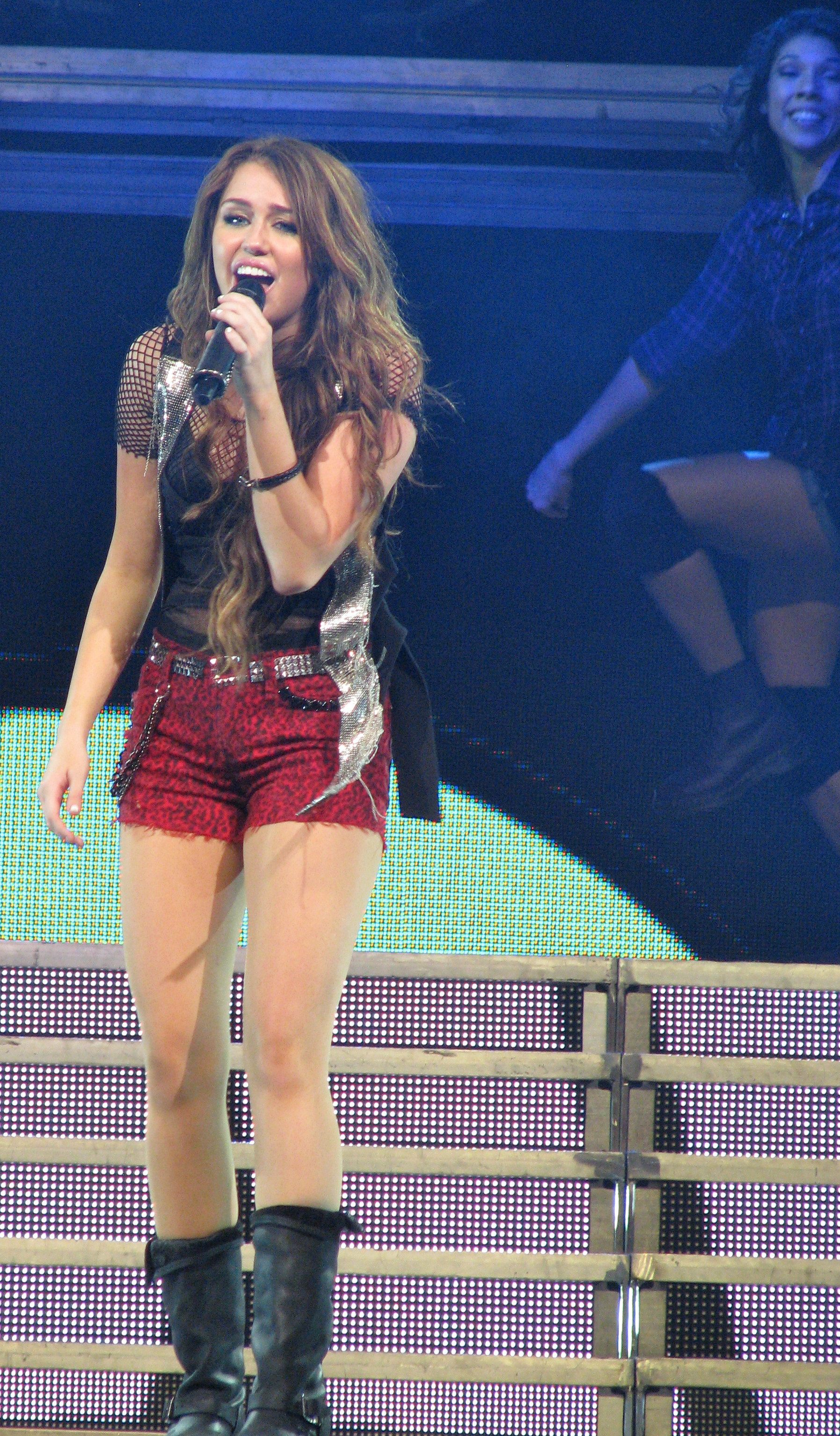 Miley Cirus singing.